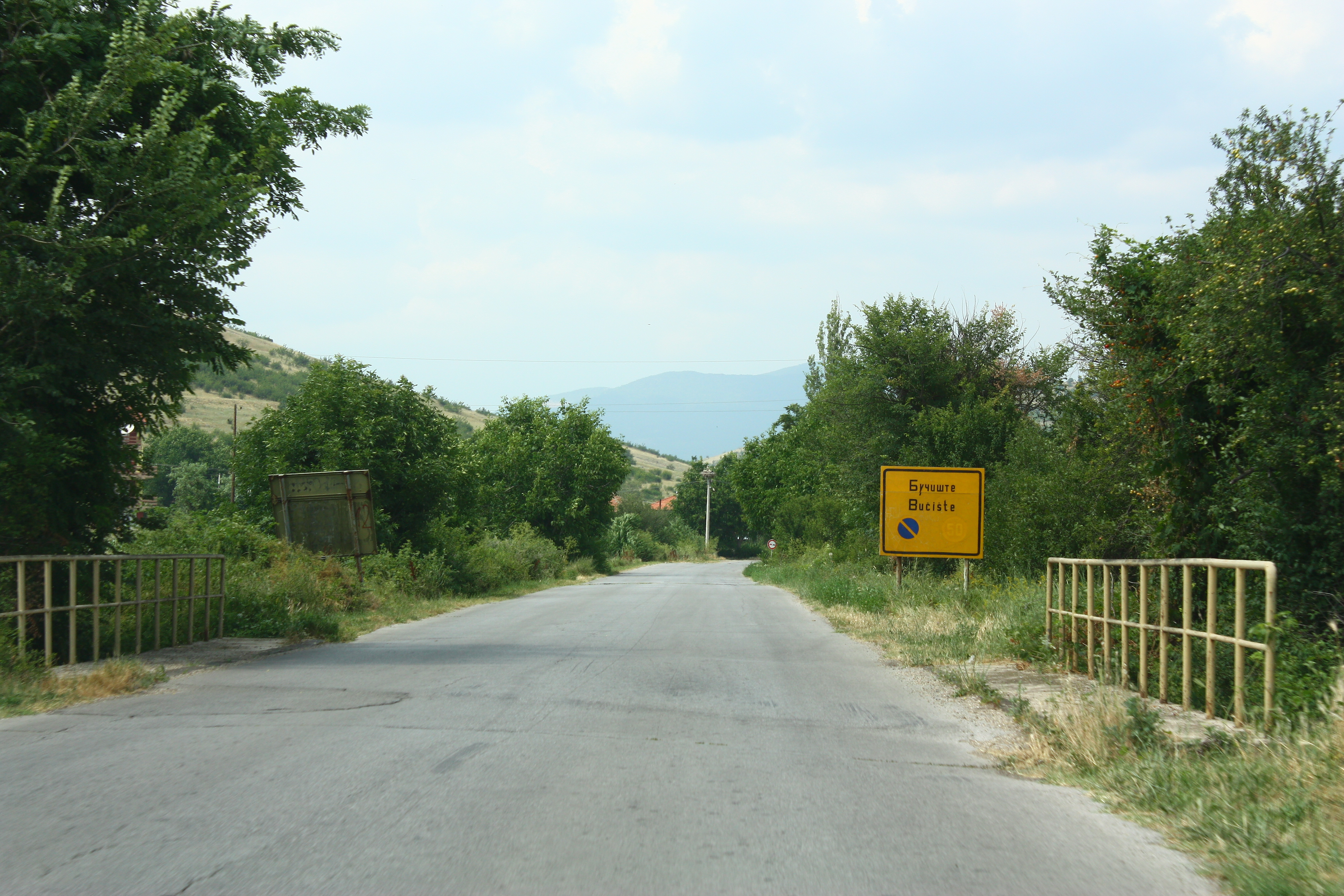 Bučište, Macedonia